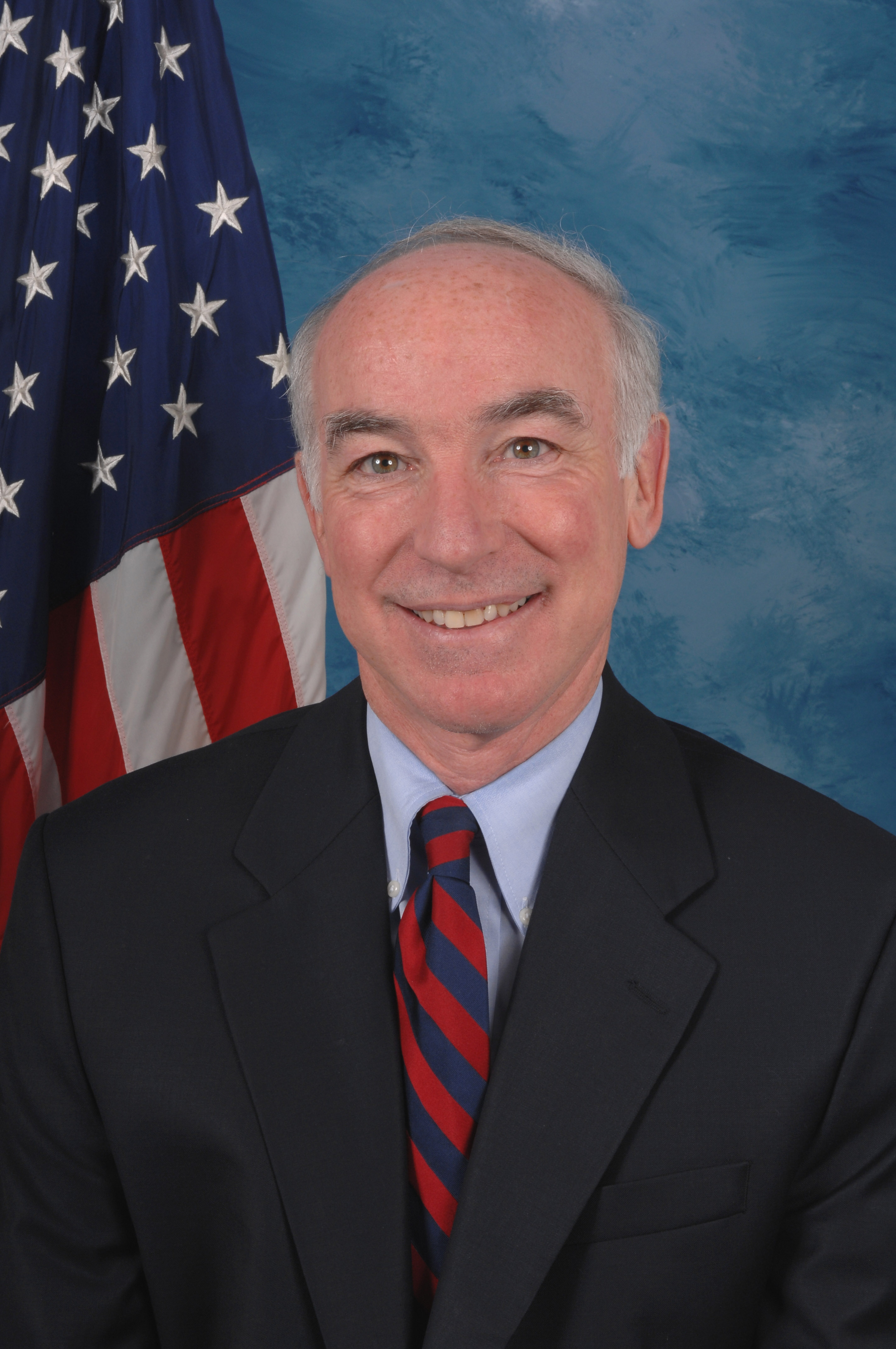 Joe Courtney, member of the United States House of Representatives.